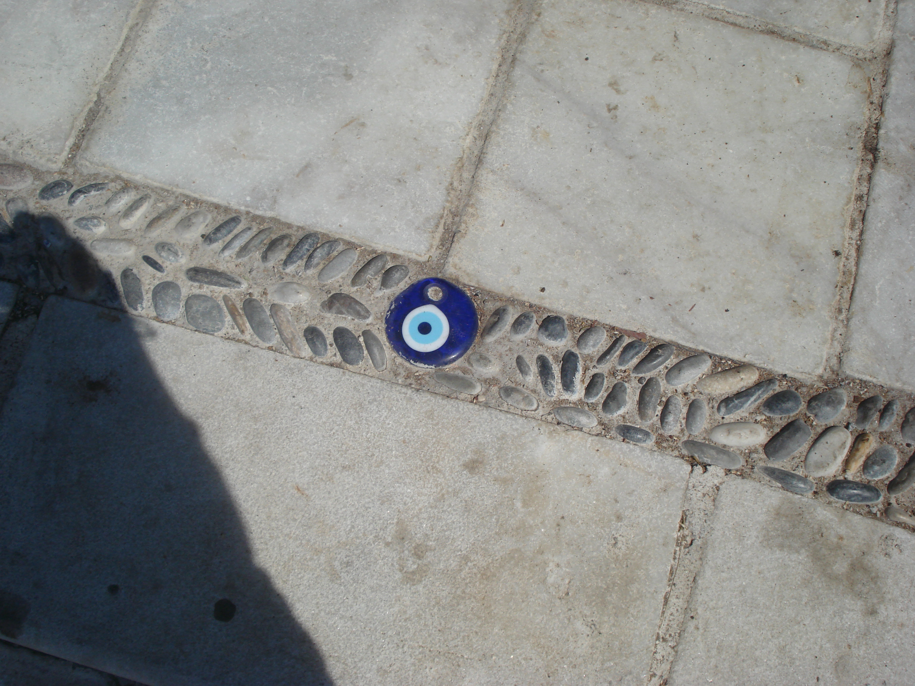 Nazar-amulet in a street in Bodrum